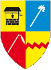 Coat of arms of Schwarzenborn (Eifel)